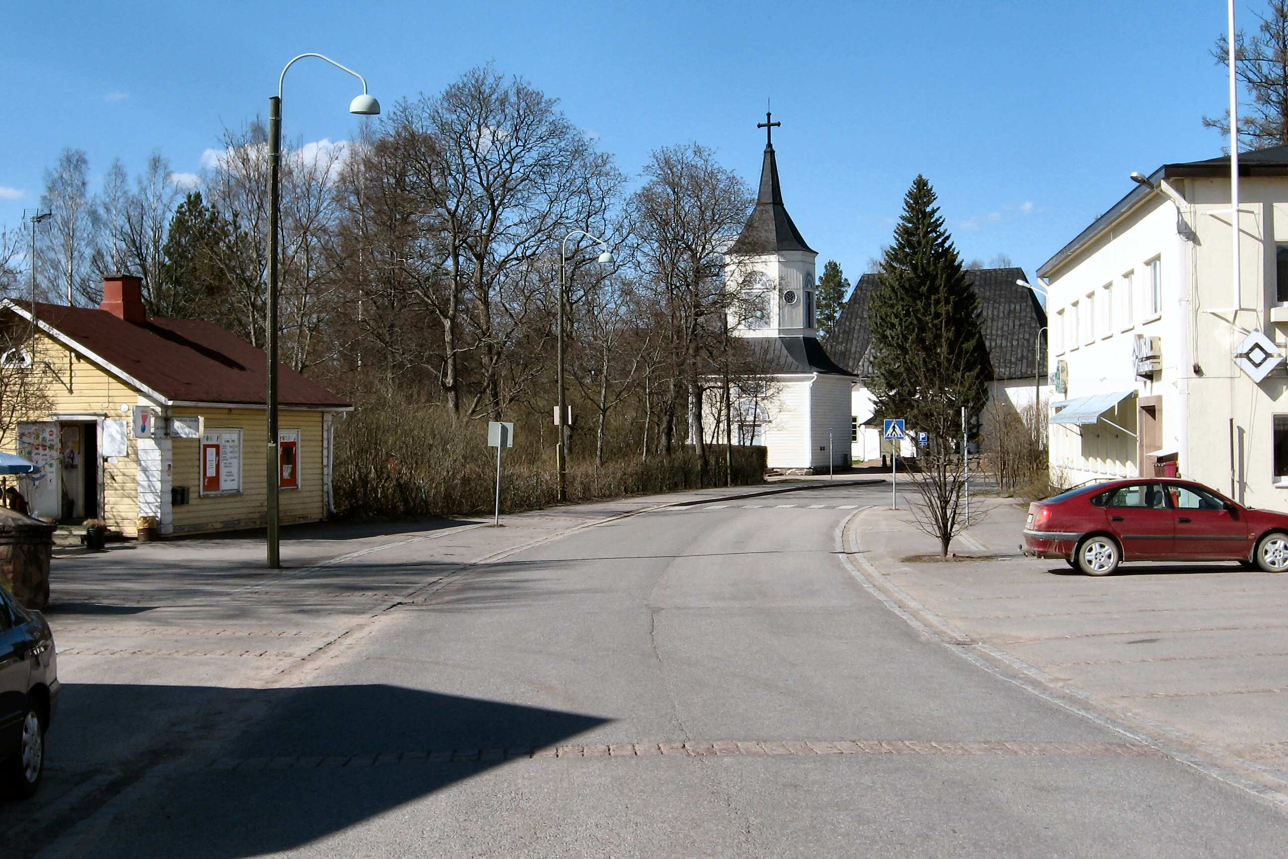 Lapinjärventie (Lappträskvägen) street in Lapinjärvi (Lappträsk), Finland (2008). Lapinjärvi Swedish church and the belfry in the background.